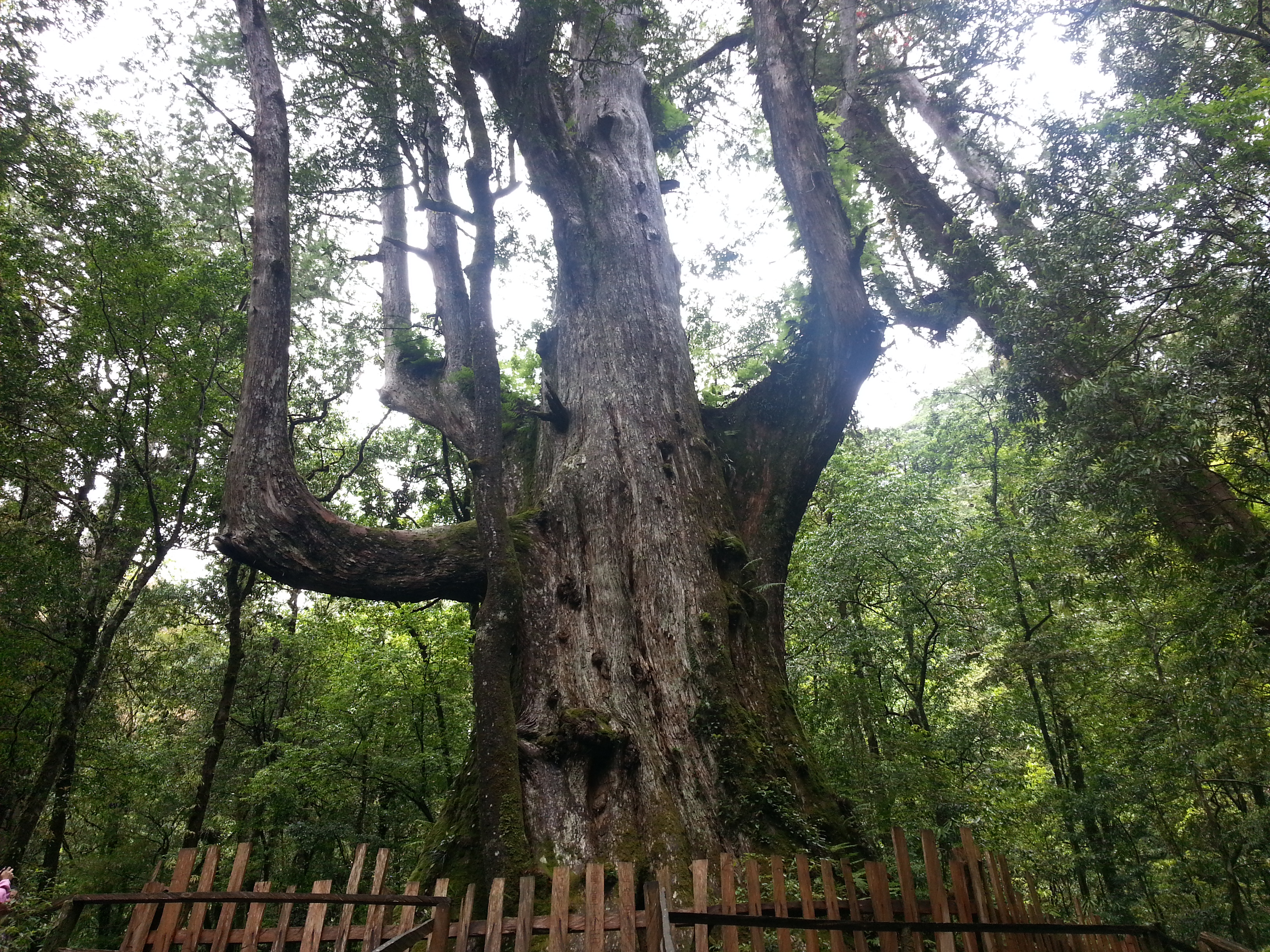 Smangus shenmu